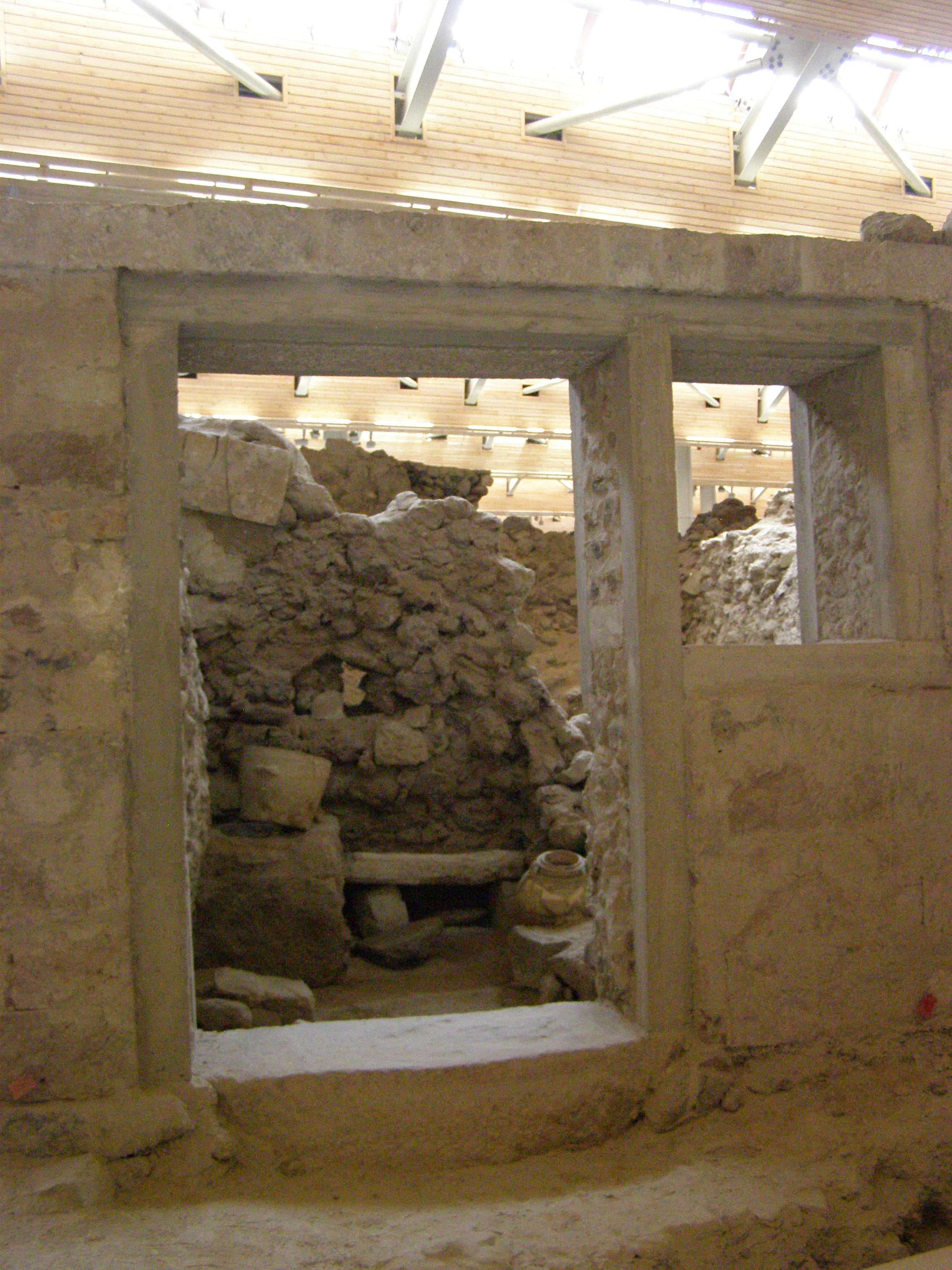 Vchodové dveře s okénkem po straně.